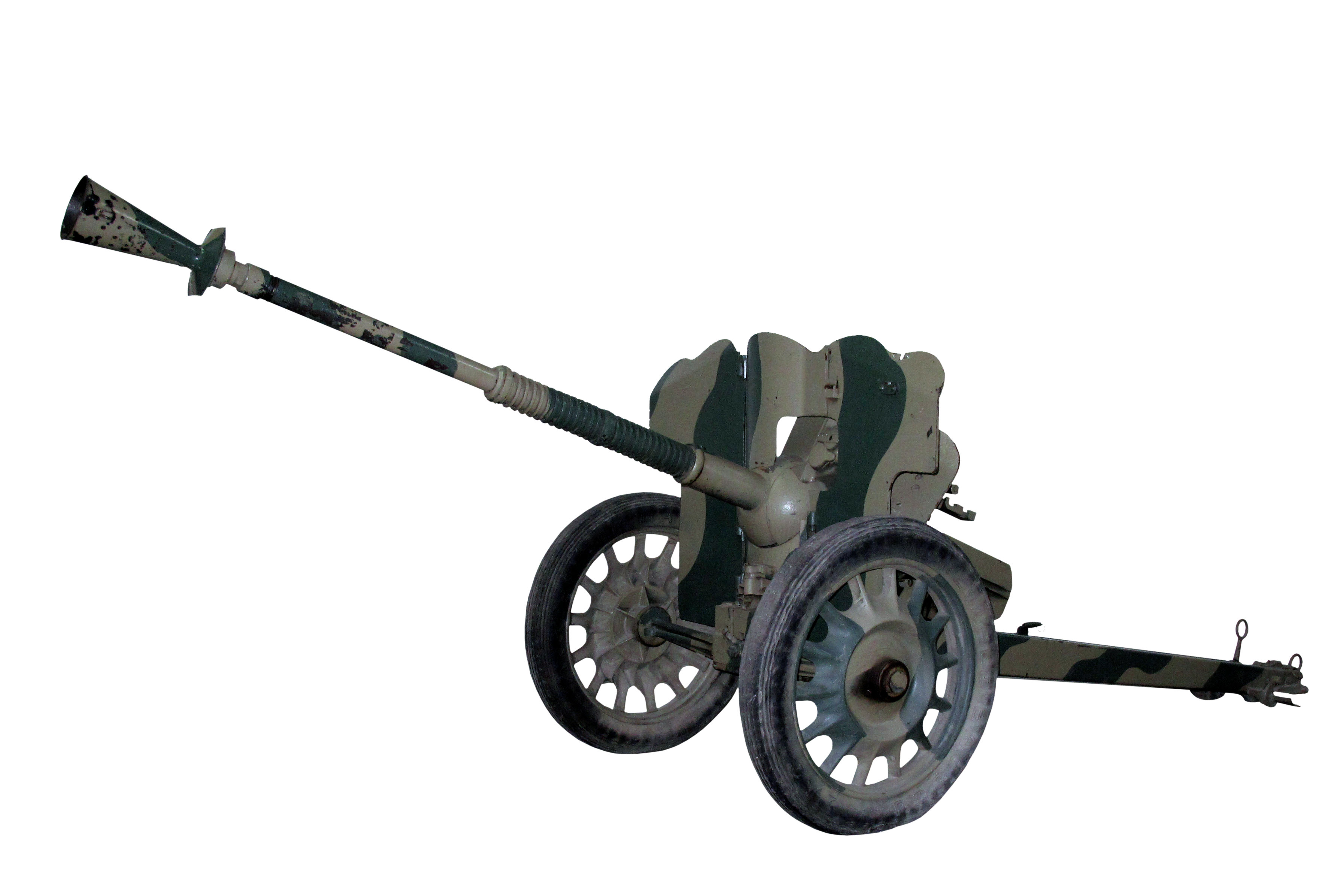 APX SAL 37, 35mm anti-tank gun introduced in French service in 1938. On display at Saumur Général Estienne museum.